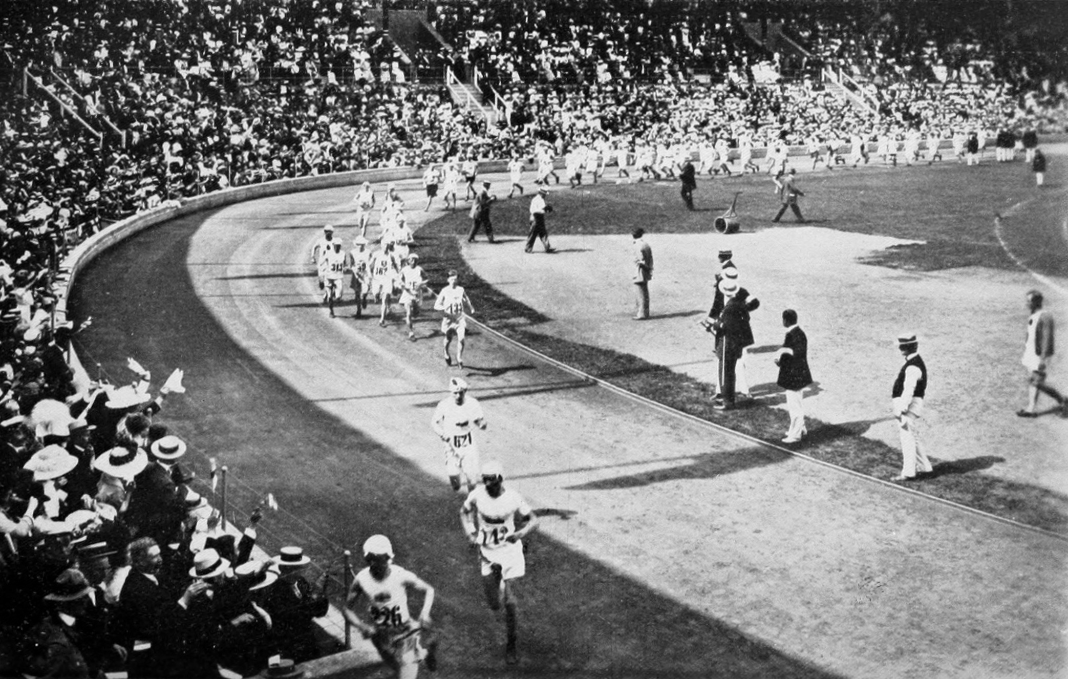 The runners leaving the stadium after the start of the Marathon at the 1912 Summer Olympics.